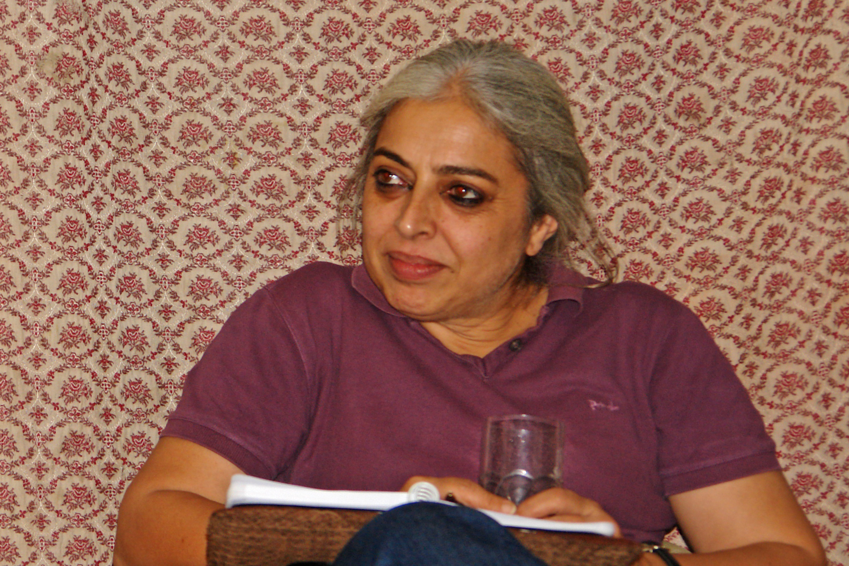 Indian novelist